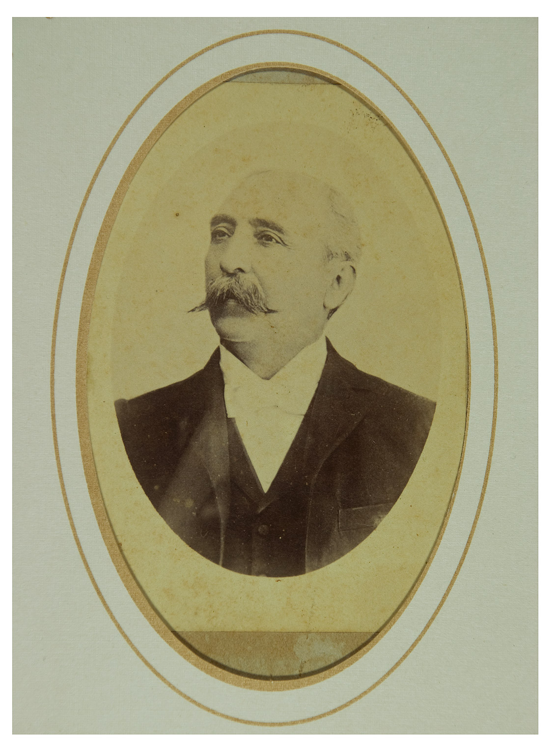 General Siervo Sarmiento, 1902